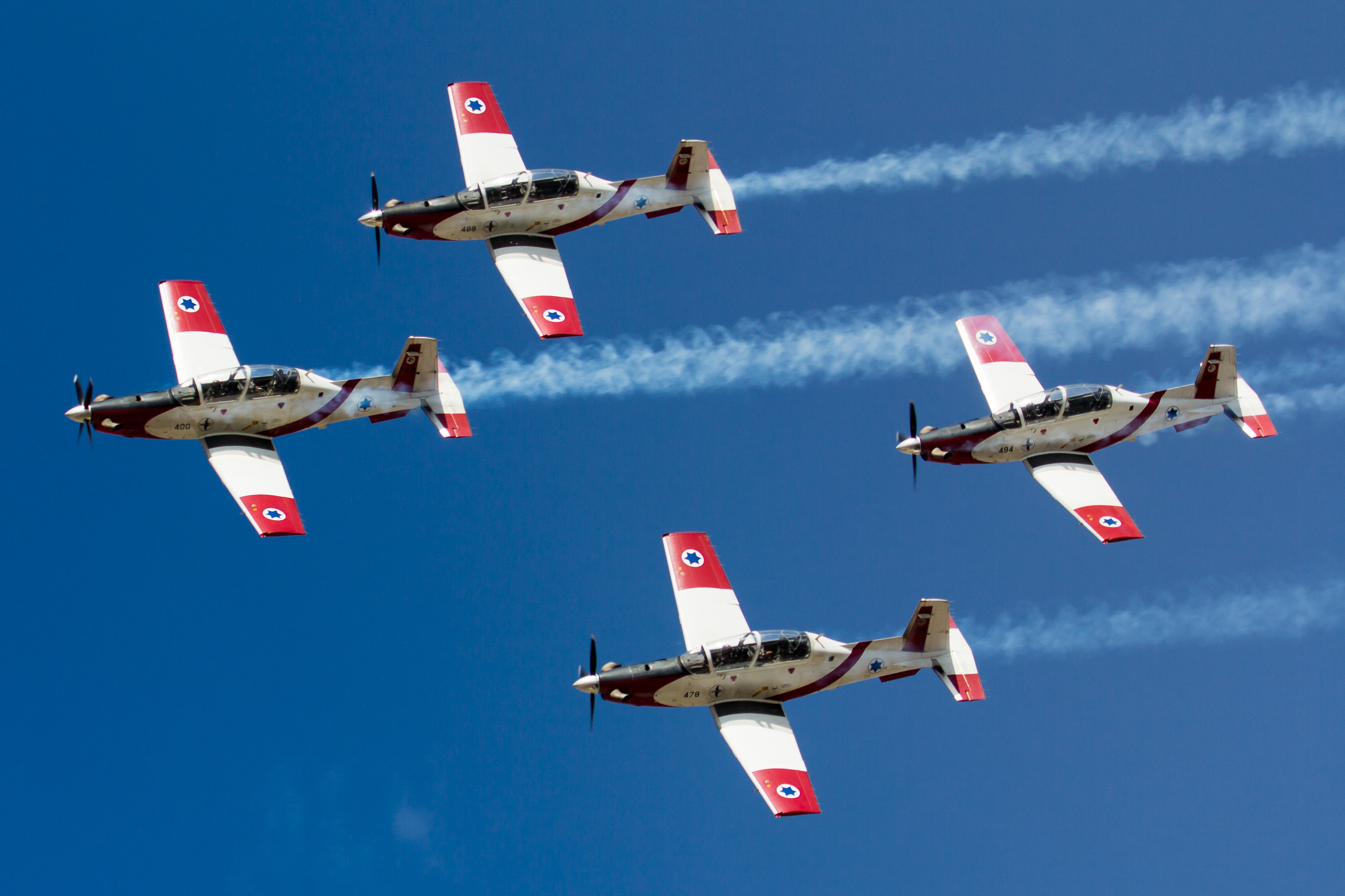 The Israeli Air Force Aerobatic Team performing over Ramat David AFB on Israel's 69th Independence Day.